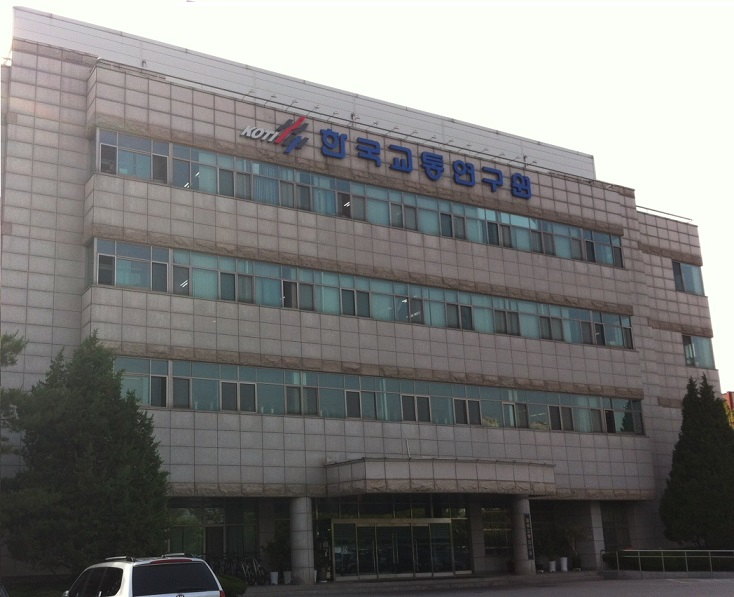 A picture of the The Korea Transport Institute in Goyang City via the parking lot.